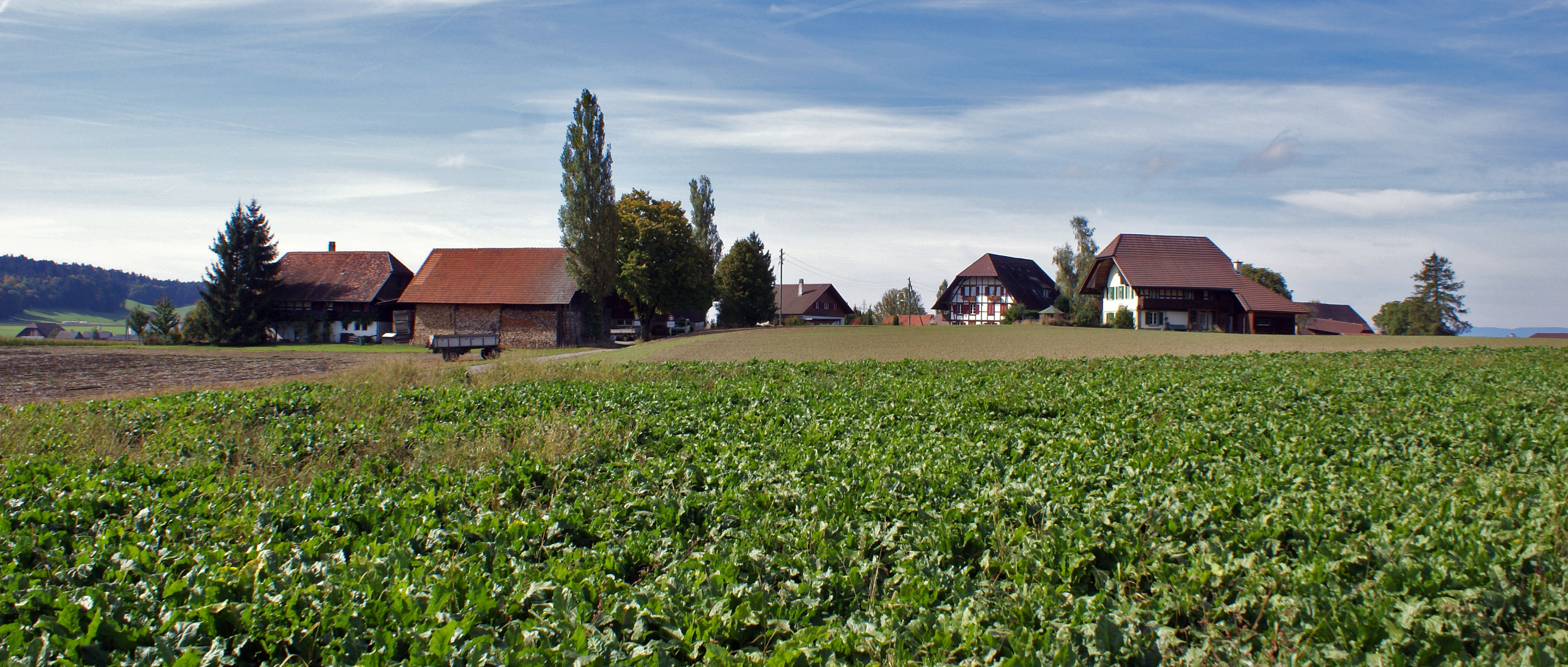 Niederbottigen hamlet, municipality of Berne, Switzerland.